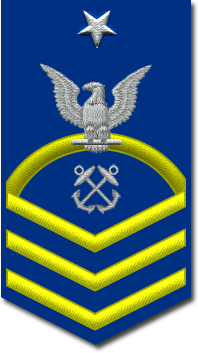 US Coast Guard Senior Chief Petty Officer insignia